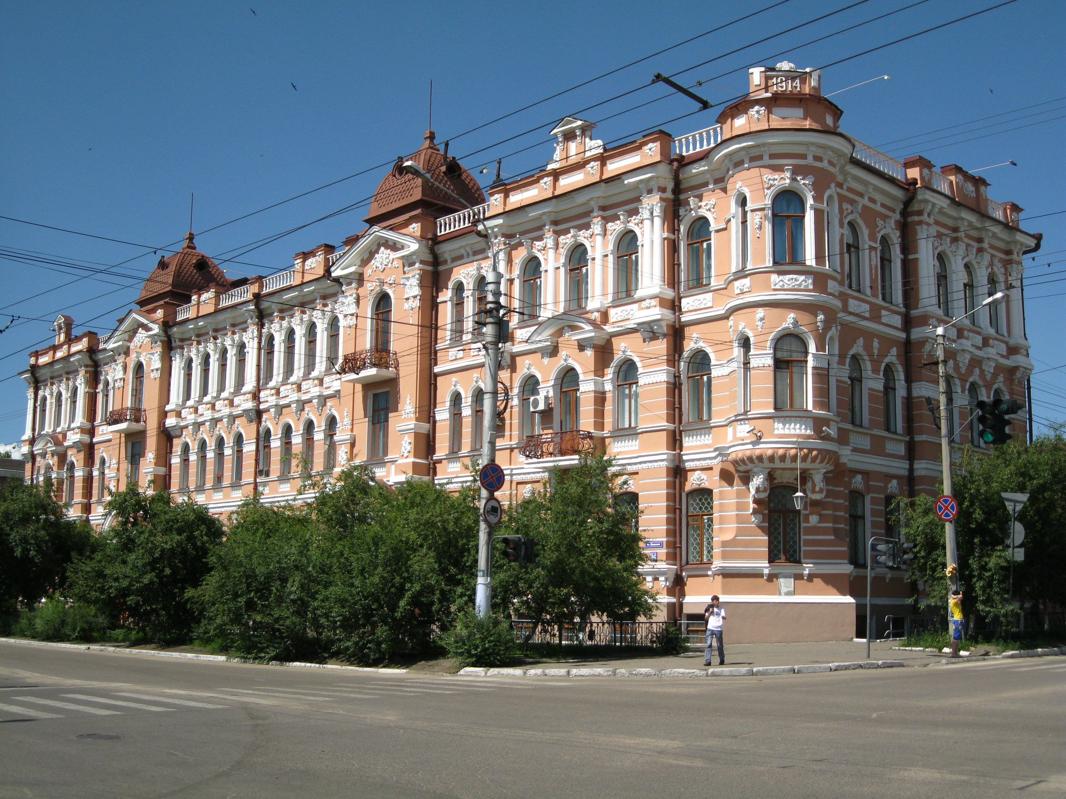 Brothers Shumov's palace in Chita, Russia